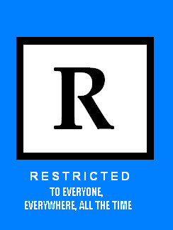 Rated R remark.